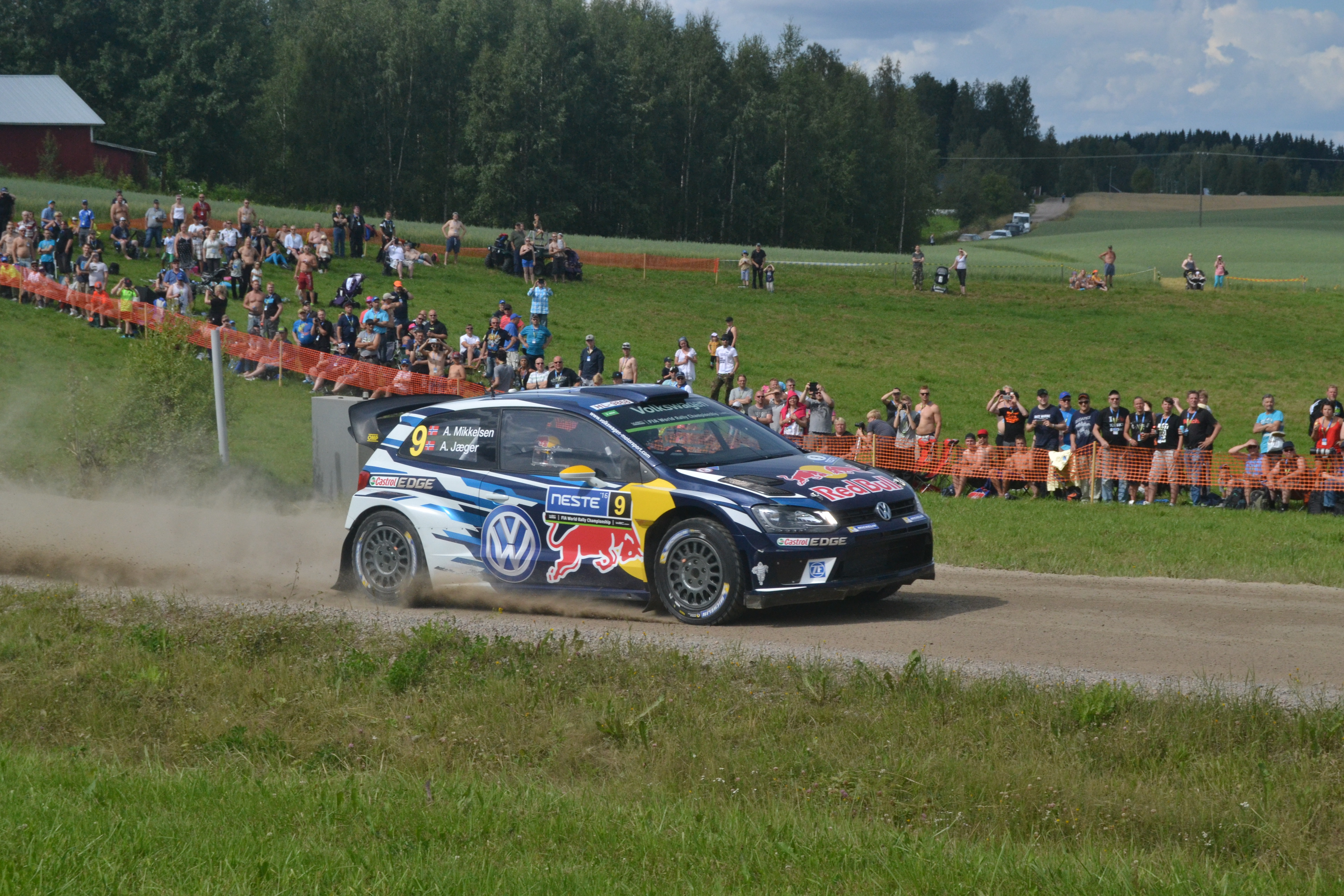 Andreas Mikkelsen at Äänekoski–Valtra stage at Rally Finland 2016